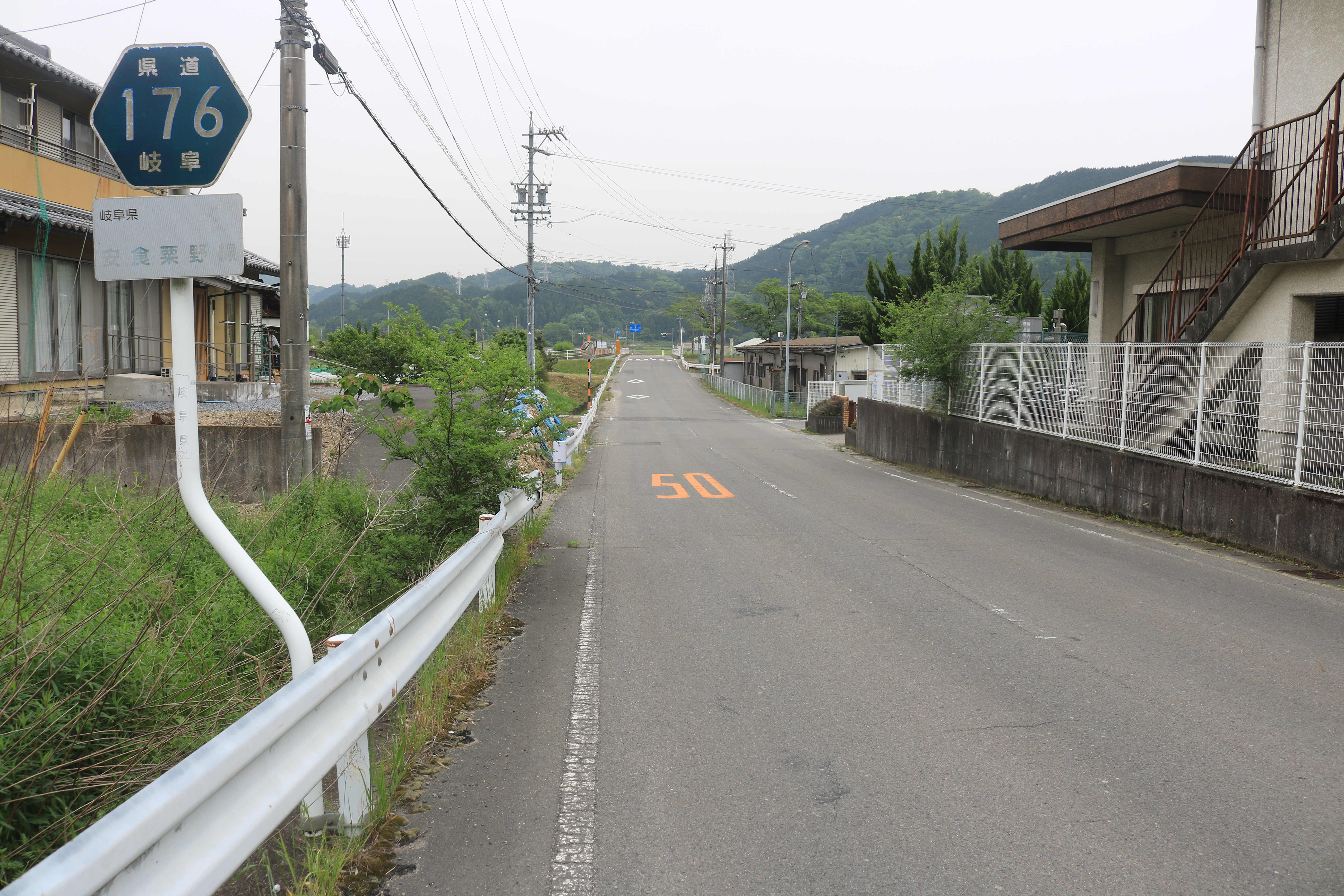 Gifu Prefectural Road Route 176 in Ajiki, Gifu city, Gifu prefecture, Japan.